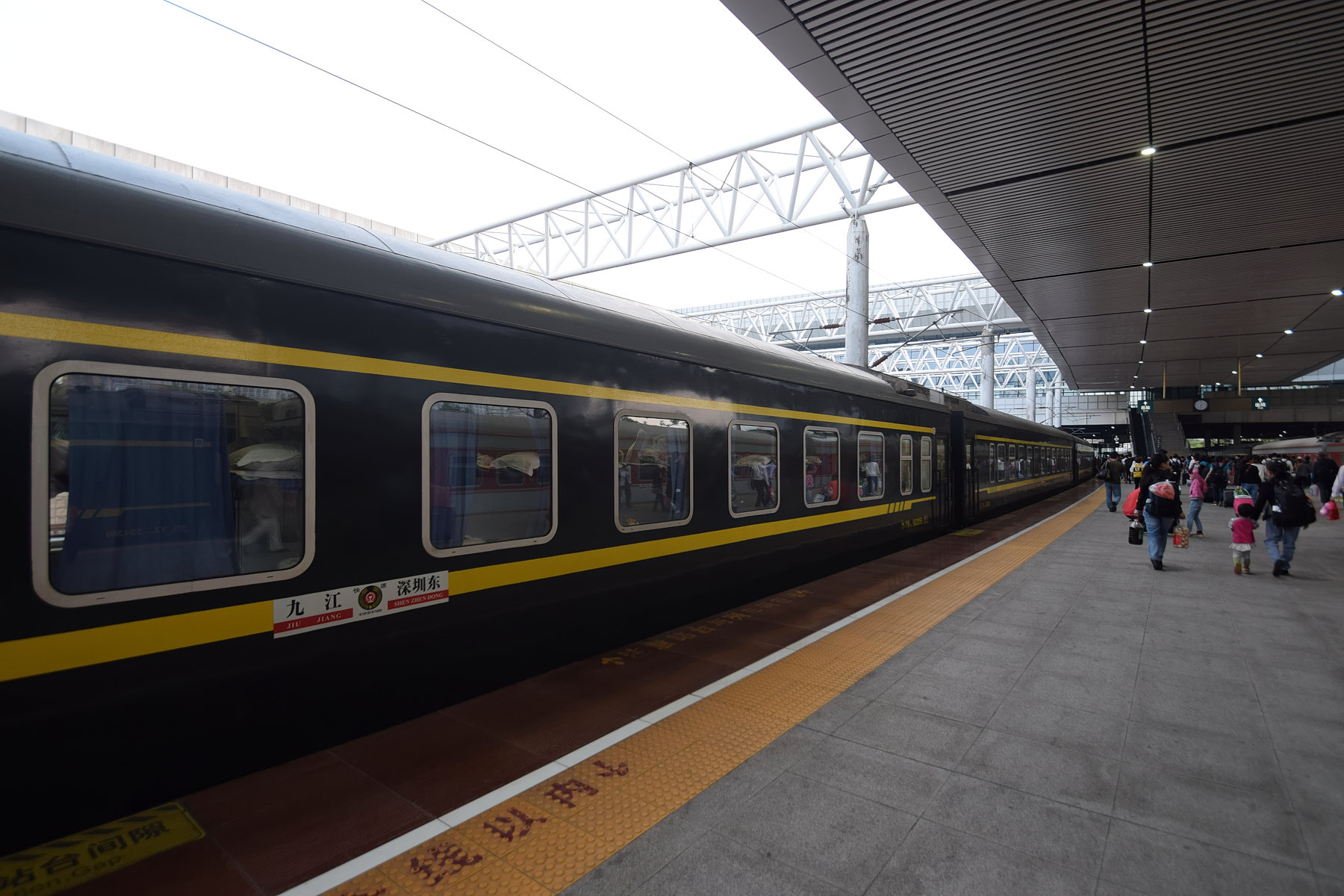 K1019 25G train had just arrived at Shenzhen East (Dong) Railway Station and was stopping at Platform 3.